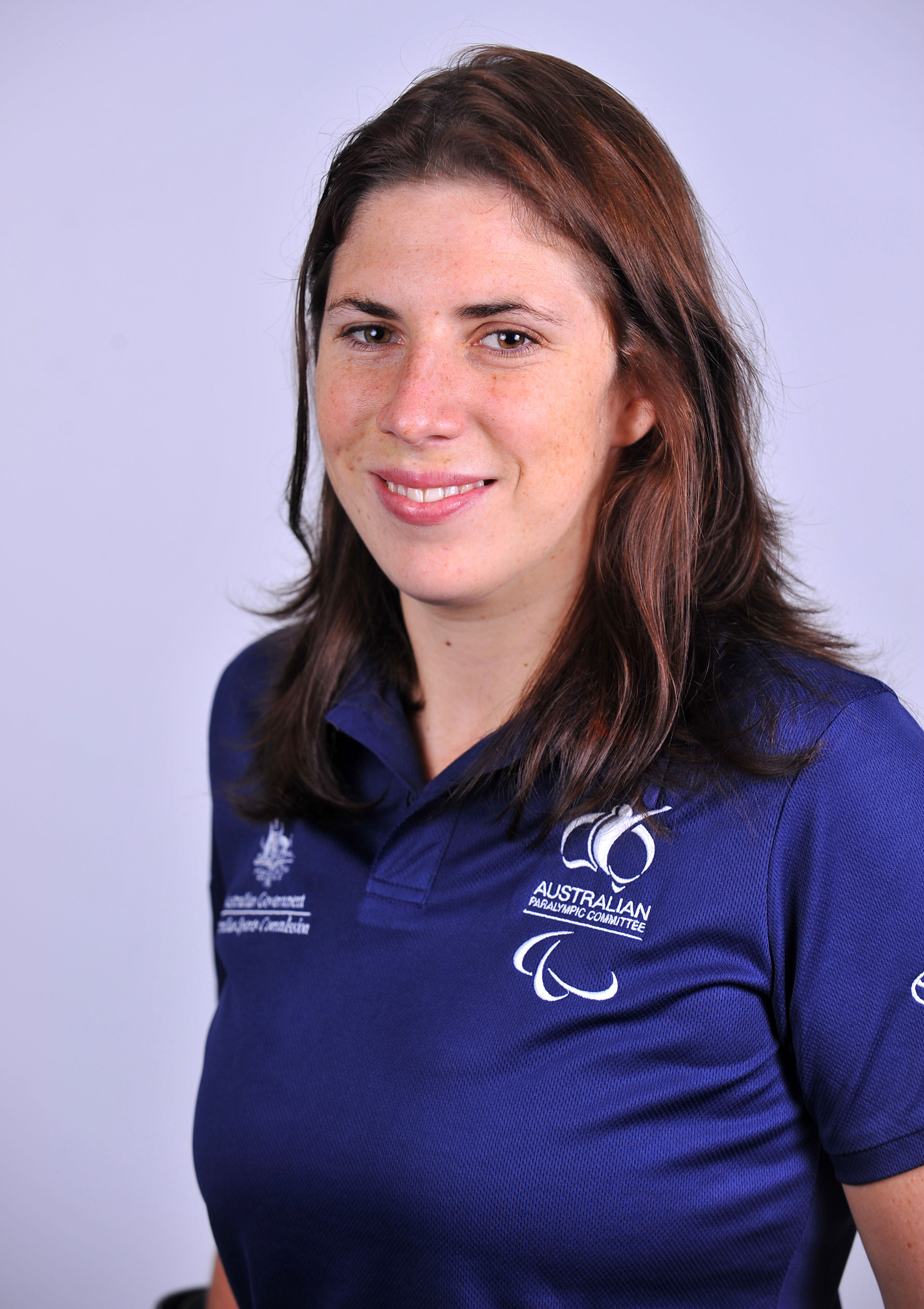 Portrait of Australian swimmer Katrina Porter, 2012 Australian Paralympic (shadow) Team athlete